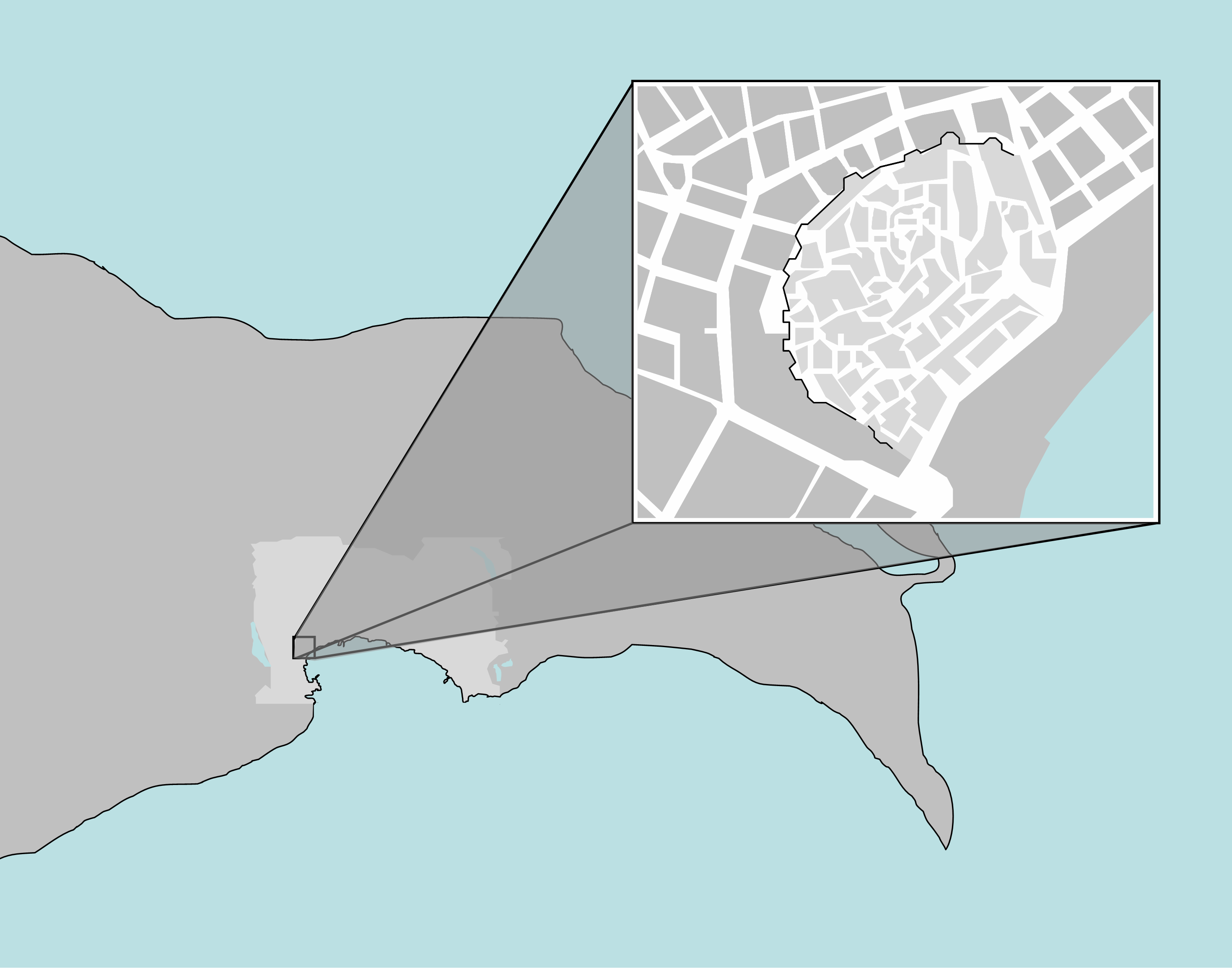 Ichery Sheher on Baku's map